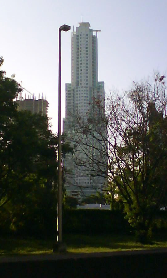 Skyscrapers of Panama City, in Costa del Este. One Ocean taken by my mobile phone.